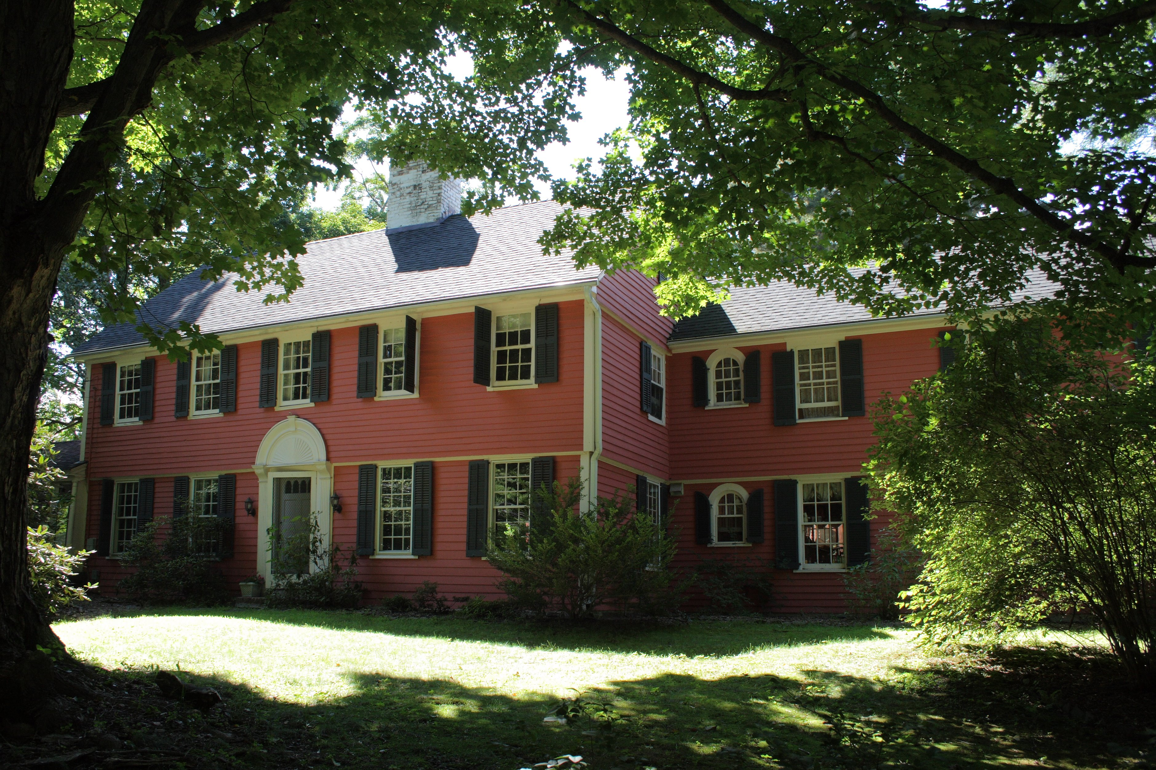 The John Wells, Jr. House, 505 Mountain Rd., a Registered Historic Place in West Hartford, Connecticut